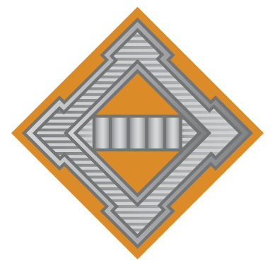 a!v! Latviete symbol